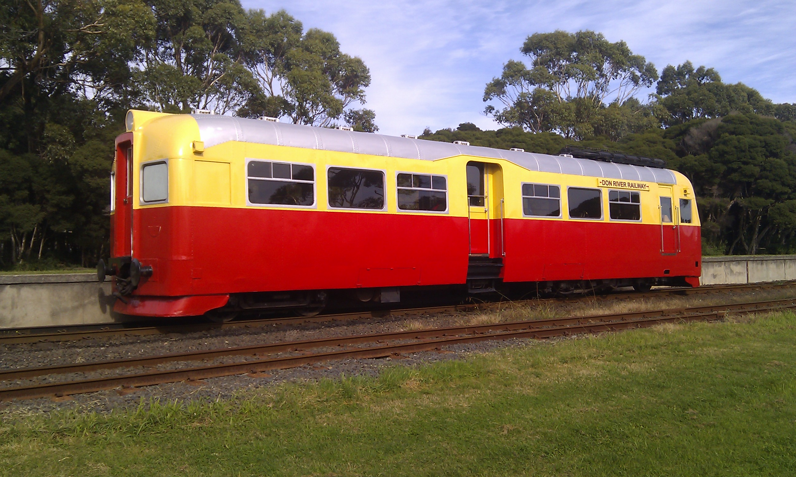 Don River Railway - DP22 Vintage RailCar, Built 1944 for Tasmanian Government Railways